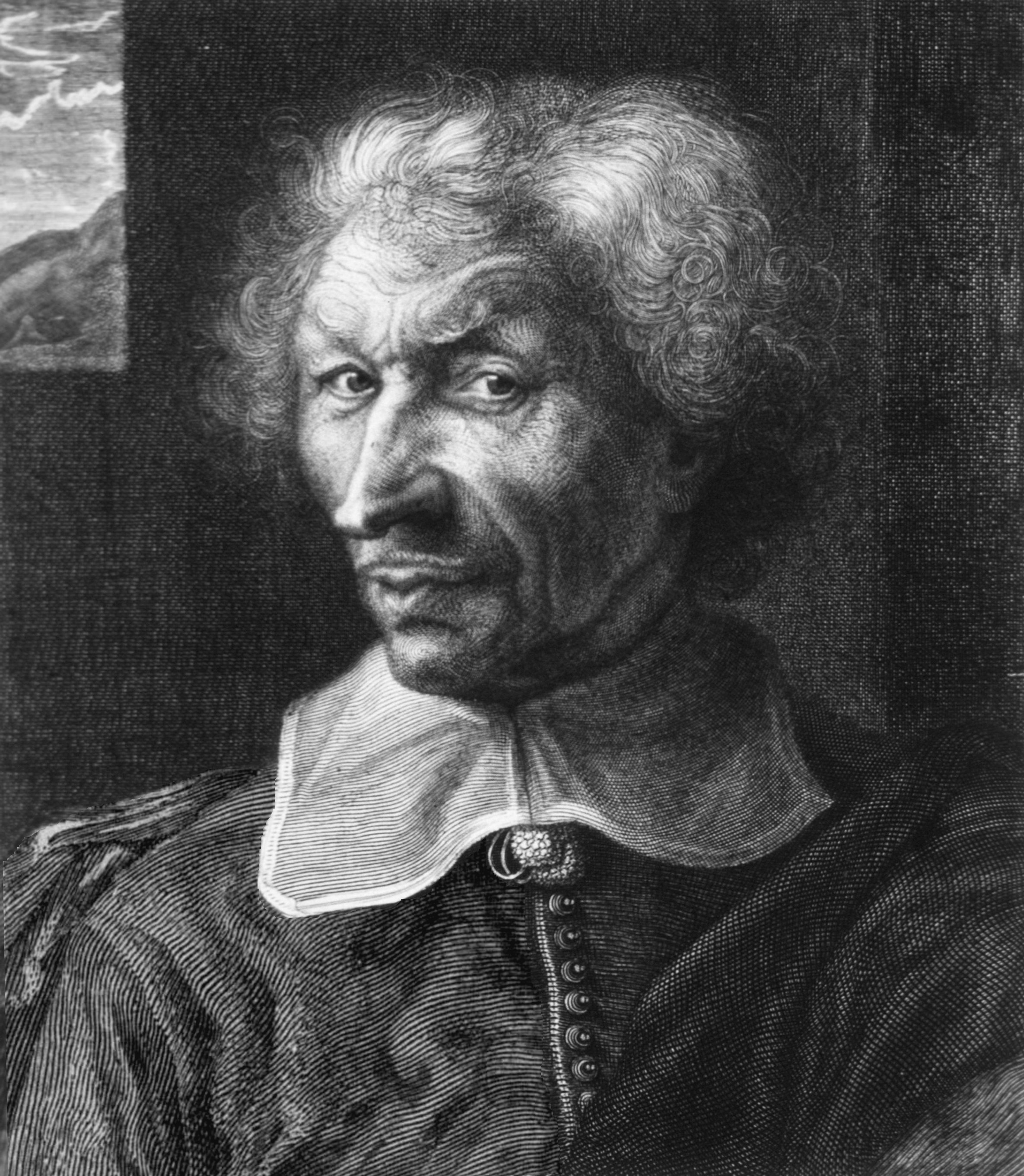 Portrait of Guy Patin (1601–1672).